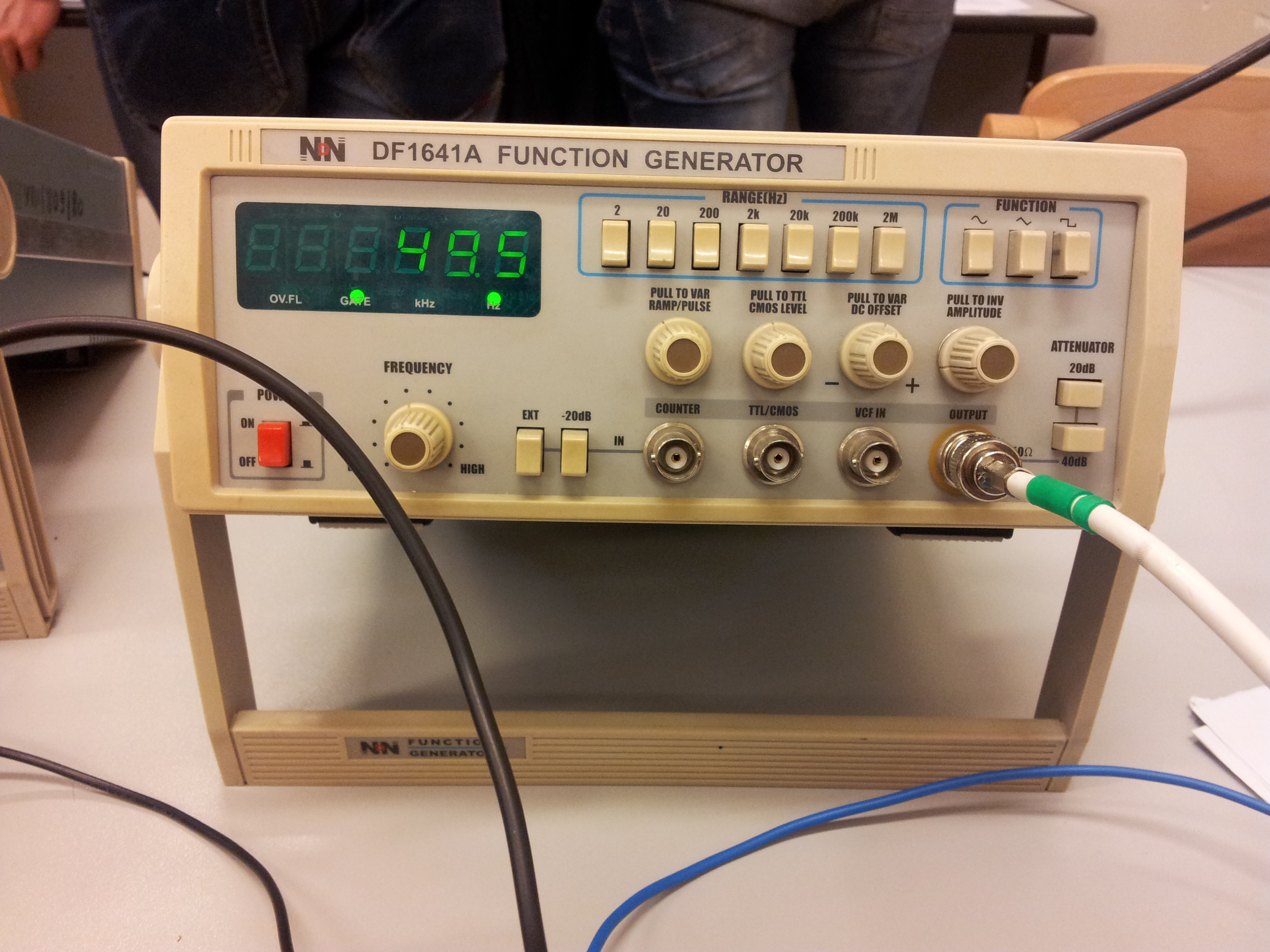 DF1641A function generator